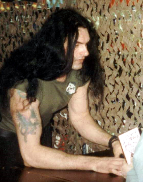 Peter Steele of Type O Negative, photographed at an in-store signing in London, England